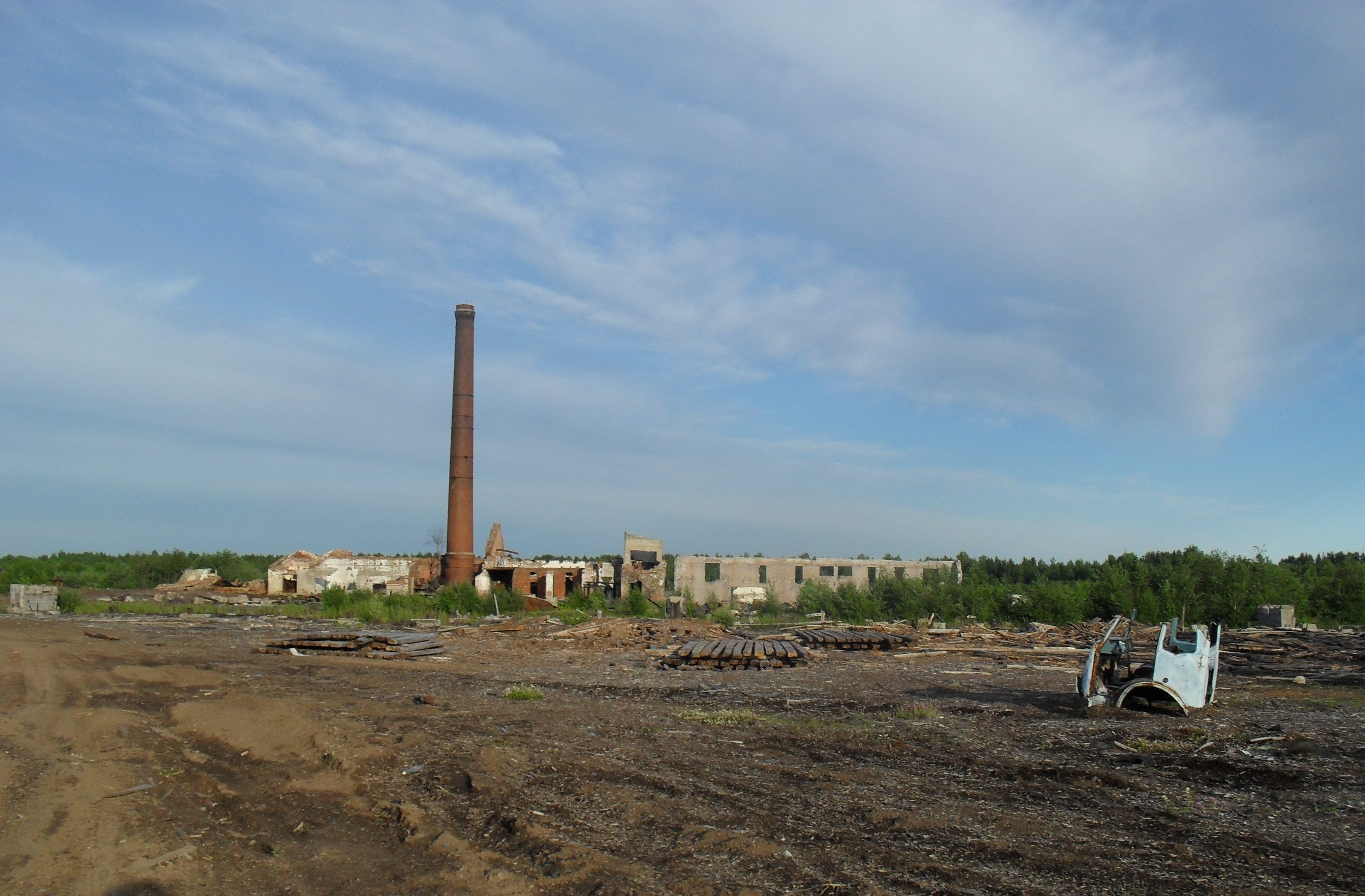 Pon'ga (Lesozavod №34)